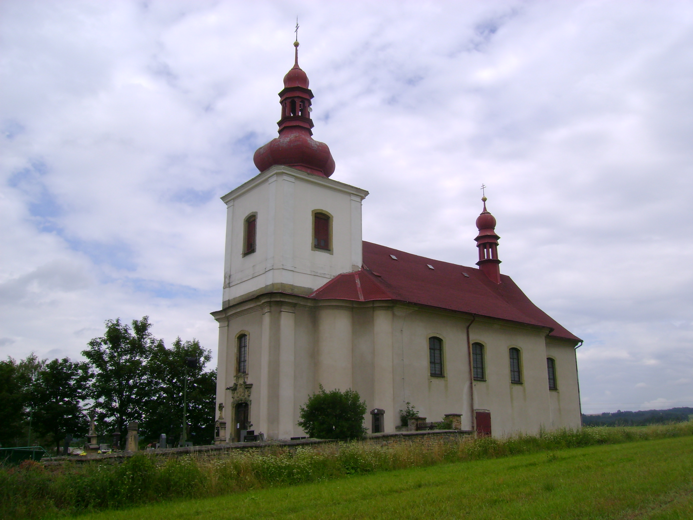 Church of Saint George in Javornice, Rychnov nad Kněžnou District, the Czech Republic.